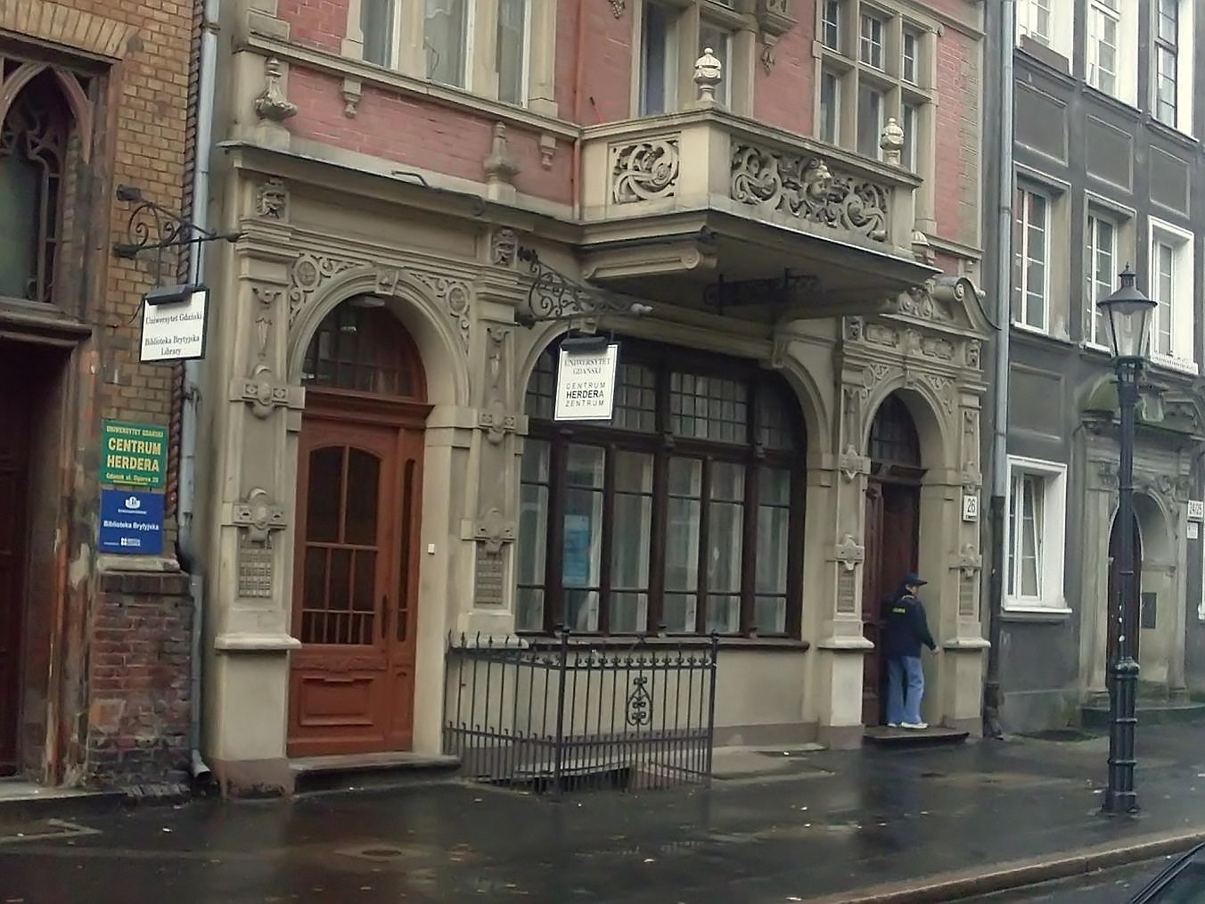 The Herder's Centre is the extradepartmental unit of the Gdańsk University at Ogarna Street in the Main Town of Gdańsk. Patron is the philosopher Johann Gottfried Herder.